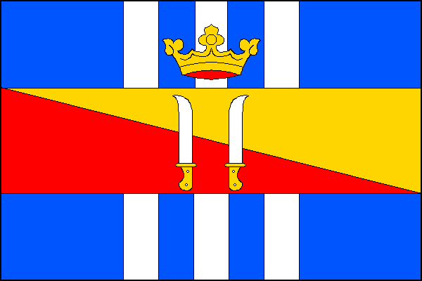 Municipal flag of Věžnice village, Havlíčkův Brod District, Czech Republic.